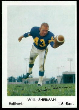 A 1959 promotional image of Los Angeles Rams player Will Sherman.